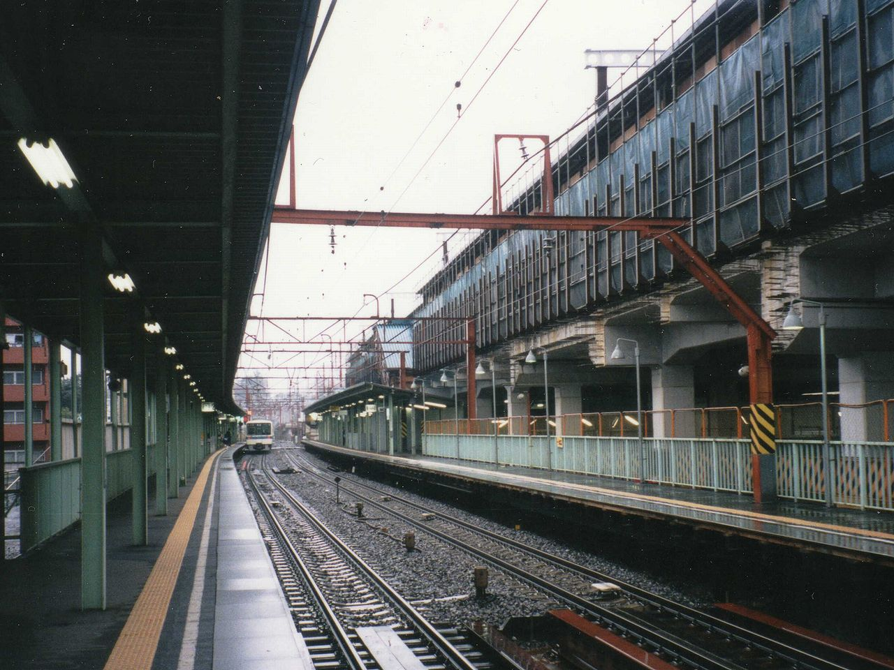 Inside of Kitami Sta. on Odakyu Odawara Line.